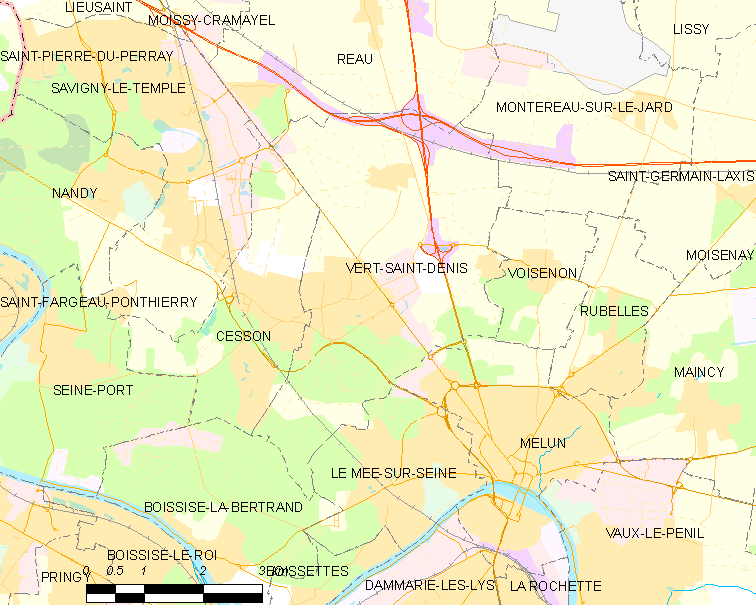 Map of French municipality Vert-Saint-Denis